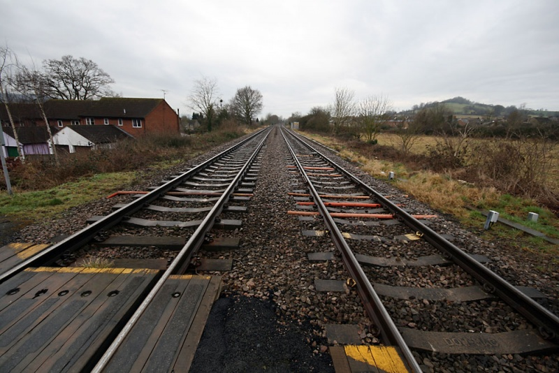 The site of Ebley Crossing Halt on the Golden Valley Line